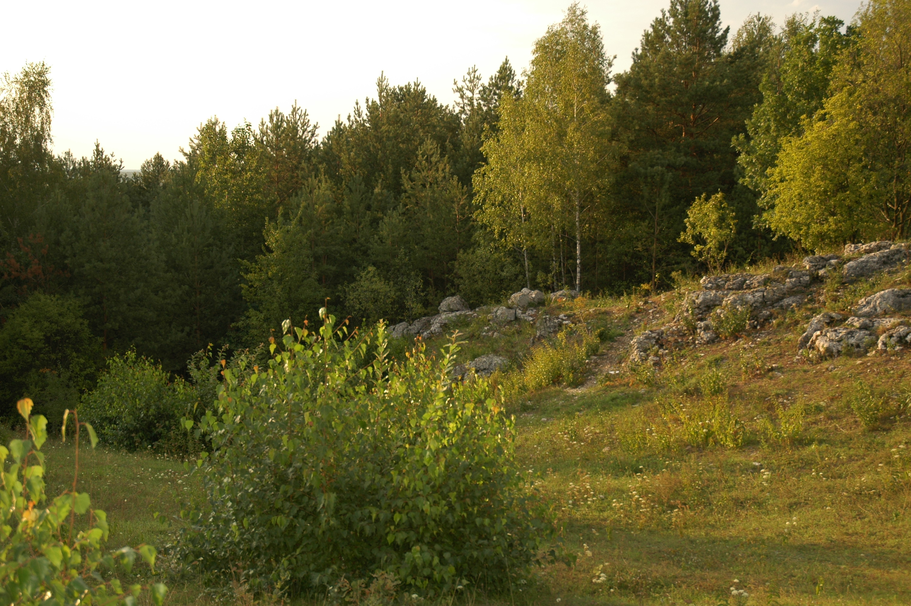 View from the Zelce hill in Zalęcze Landscape Park